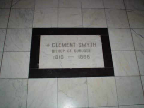 This is the final resting spot of Clement Smyth, second Bishop of the Diocese of Dubuque, Iowa. He is buried in the mortuary chapel at St. Raphael's Cathedral in Dubuque.